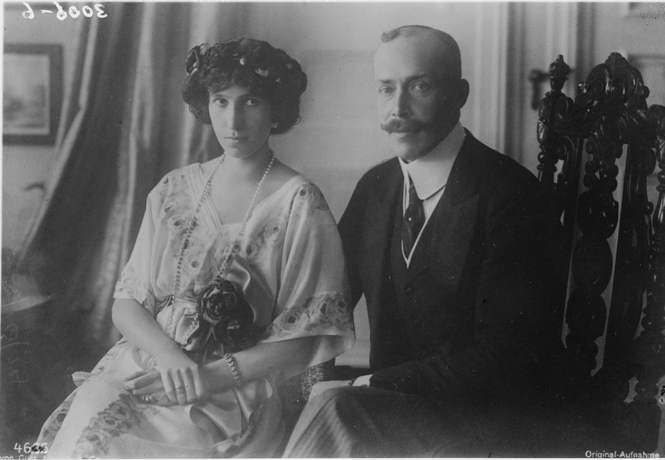 Prince and Princess of Albania (LOC) Bain News Service,, publisher. Princess Sophie of Schönburg-Waldenburg and William circa 1913 [between ca. 1910 and ca. 1915] 1 negative : glass ; 5 x 7 in. or smaller. Notes: Title from data provided by the Bain News Service on the caption card. Photo shows Prince William of Wied, Prince of Albania (Wilhelm Friedrich Heinrich) (1876-1945) who reigned briefly as sovereign of Albania from March 1914 to September 1914 with his wife Princess Sophie Helene Cecilie of Schonburg-Waldenburg (1885-1936). (Source: Flickr Commons project, 2010) Forms part of: George Grantham Bain Collection (Library of Congress). Format: Glass negatives. Repository: Library of Congress, Prints and Photographs Division, Washington, D.C. 20540 USA, General information about the Bain Collection is available at Persistent URL: Call Number: LC-B2- 3006-6